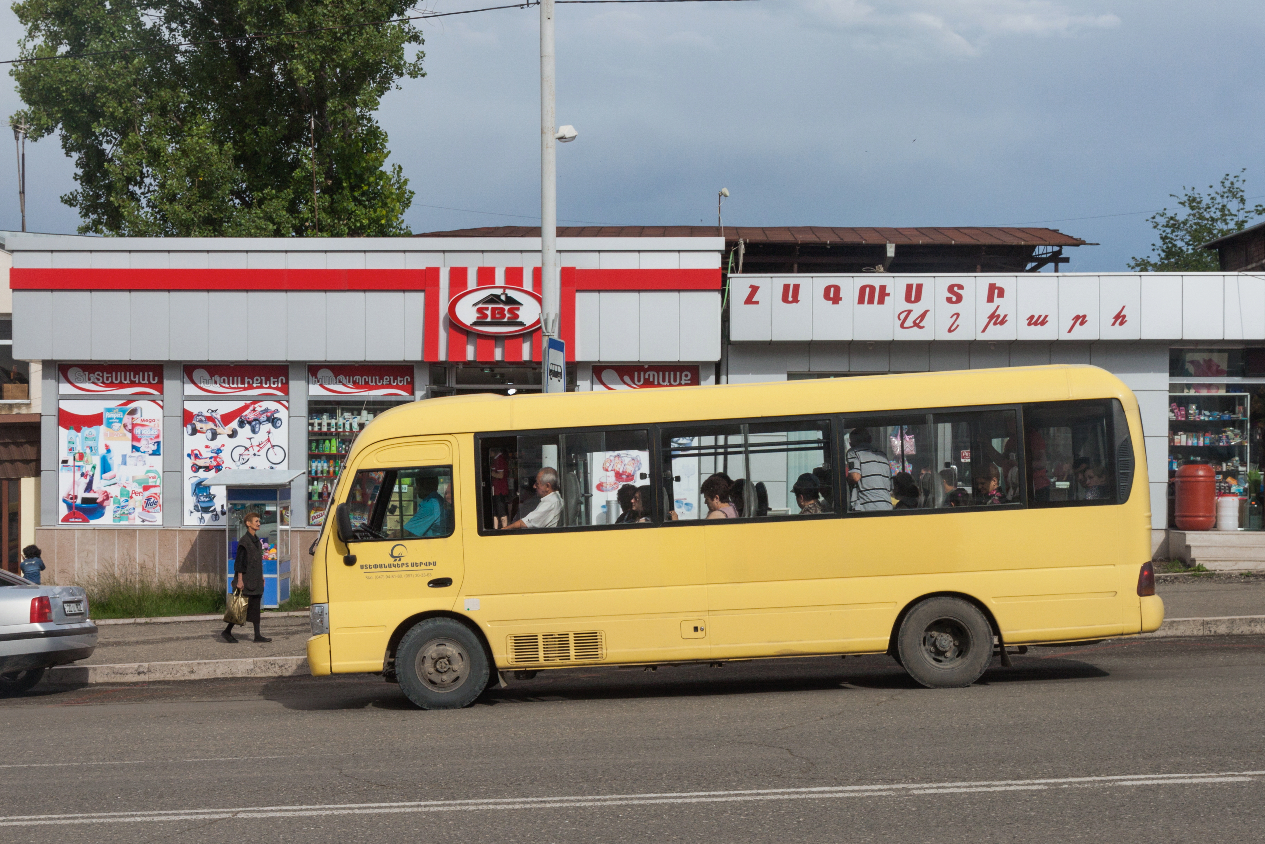 Bus at the bus stop. Stepanakert/Xankəndi, Nagorno-Karabakh.